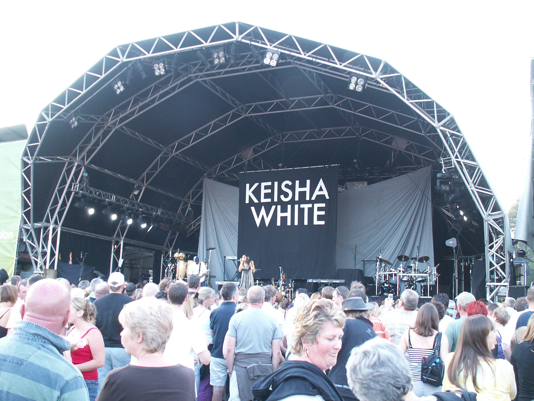 Keisha White performing as a support act for UB40 at Westonbirt Arboretum